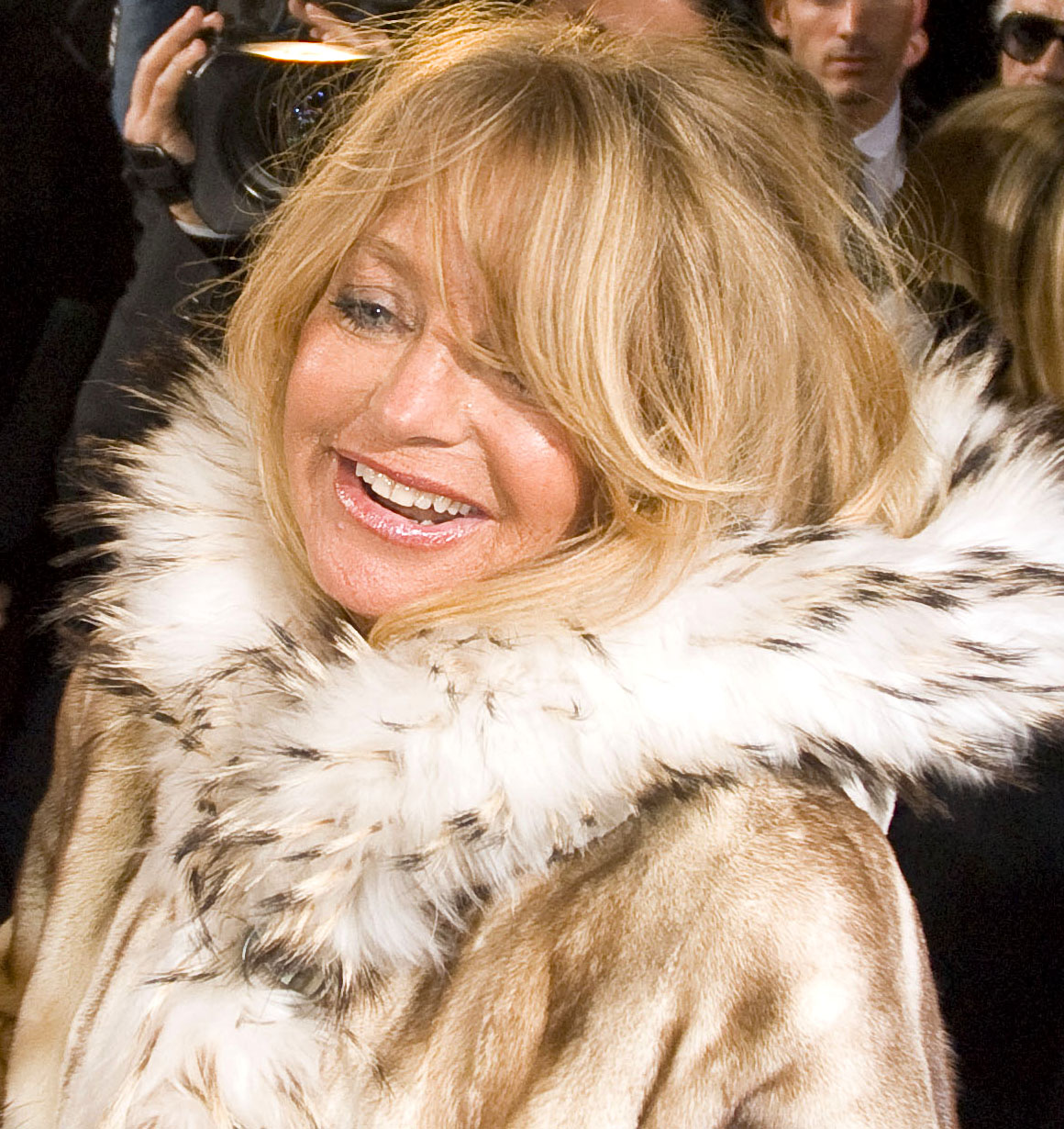 Goldie Hawn at the Volkswagen People’s Night 2008